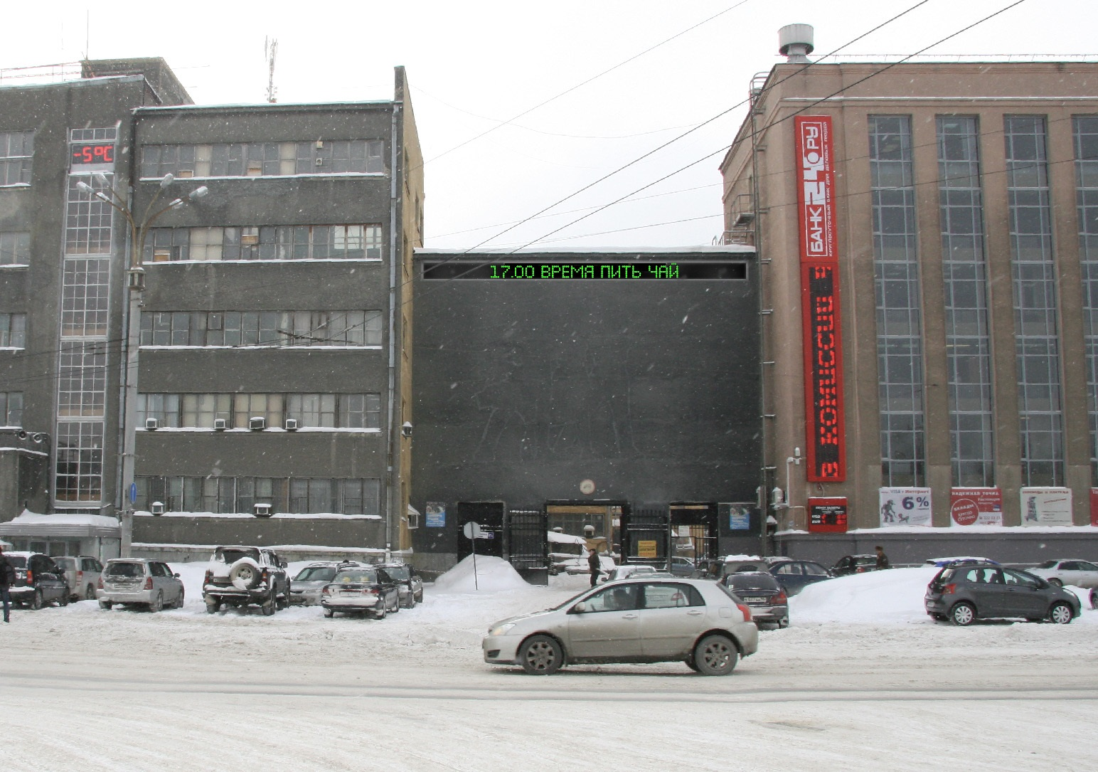 Uralmash factory sketch